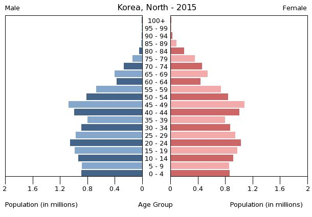 A population pyramid illustrates the age and sex structure of population and may provide insights about political and social stability, as well as economic development. The population is distributed along the horizontal axis, with males shown on the left and females on the right. The male and female populations are broken down into 5-year age groups represented as horizontal bars along the vertical axis, with the youngest age groups at the bottom and the oldest at the top. The shape of the population pyramid gradually evolves over time based on fertility, mortality, and international migration trends.